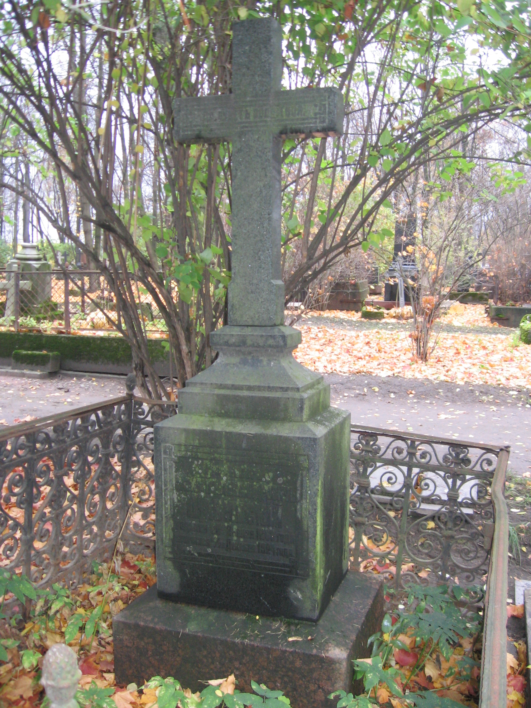 Grave of Vasily Shchavinsky